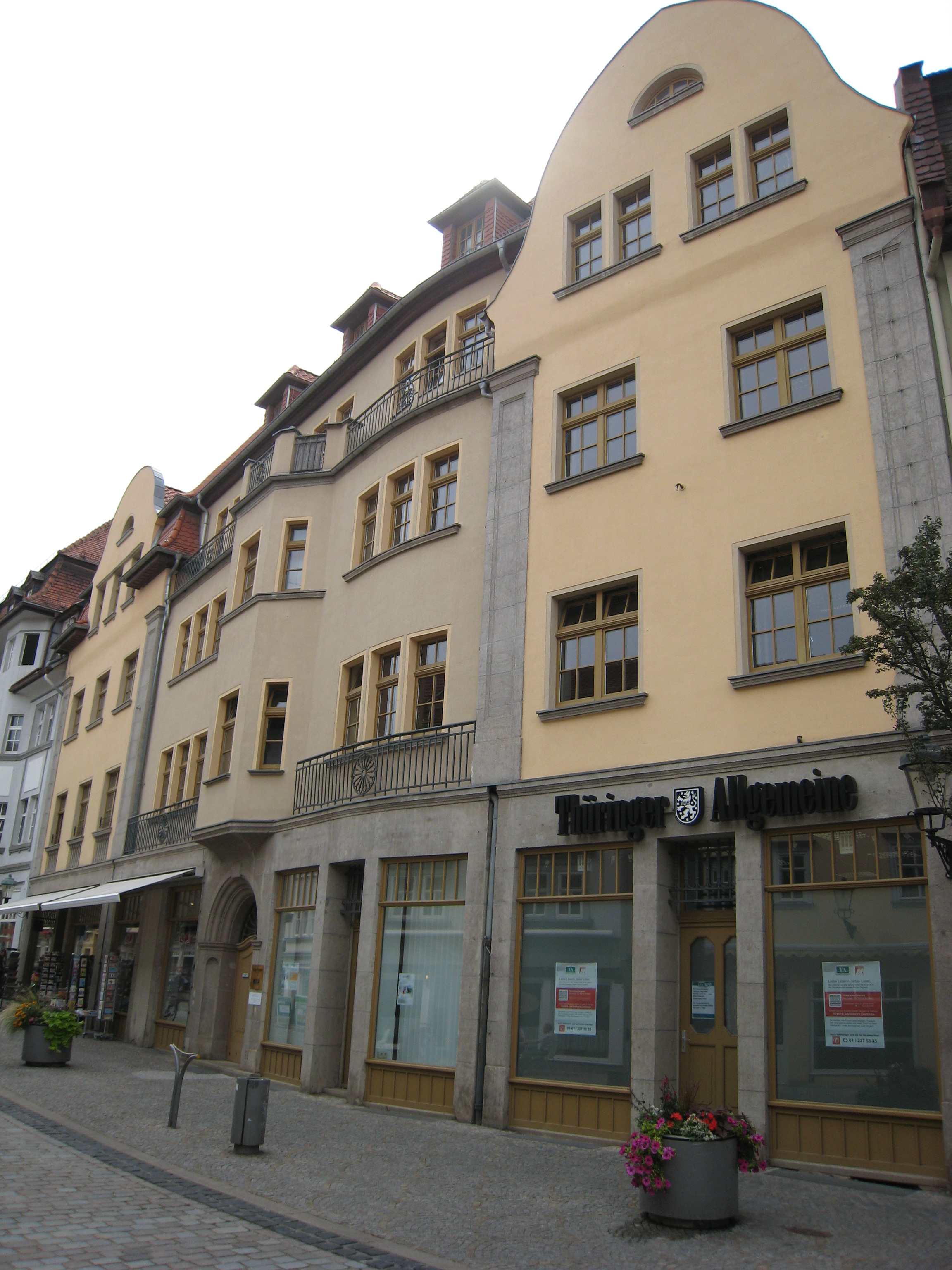 Erfurter Straße 20 and 22, Arnstadt, Thüringer Allgemeine